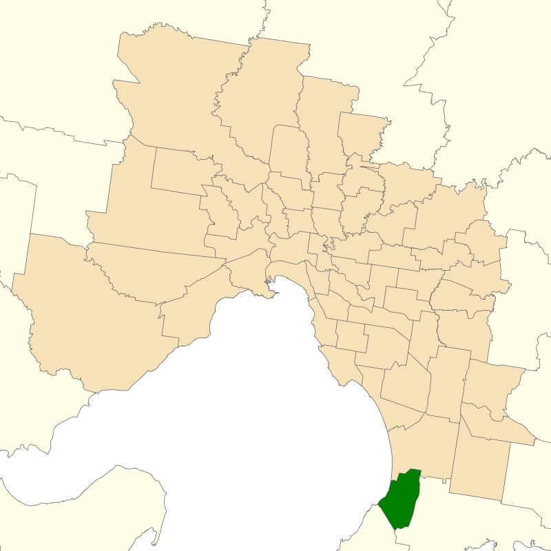 Location of the Victorian electoral district of Frankston (dark green) in the Greater Melbourne area.